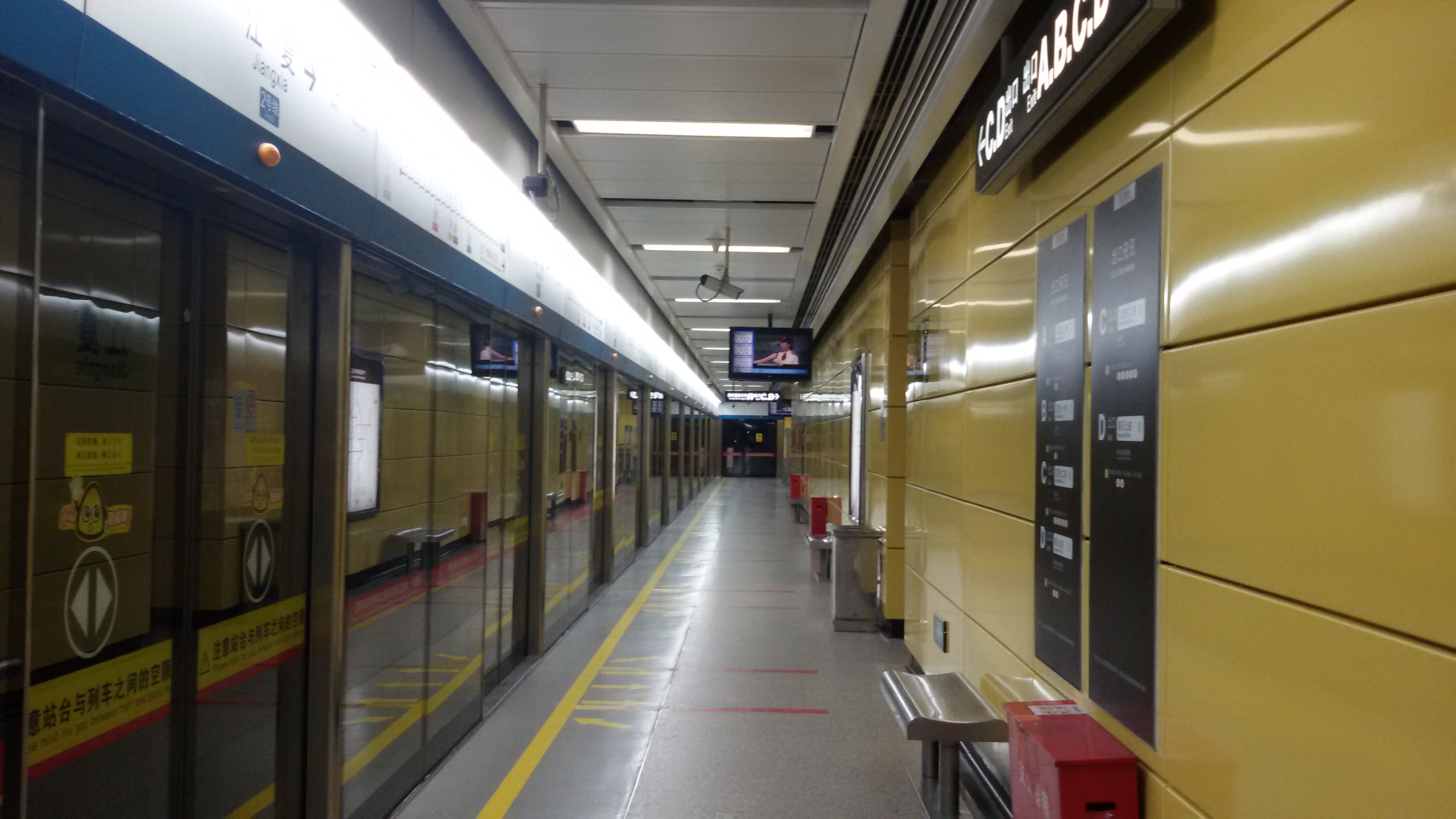 Station Platform for Jiangxia Station in Guangzhou Metro 粵語: 廣州地鐵，江夏站嘅站台。